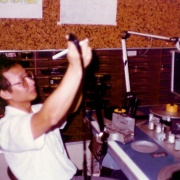 wong wing ming